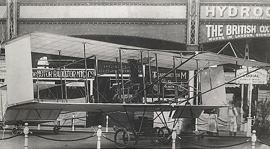 Zodiac biplane at the 1910 Aero Show ot Olympia in London